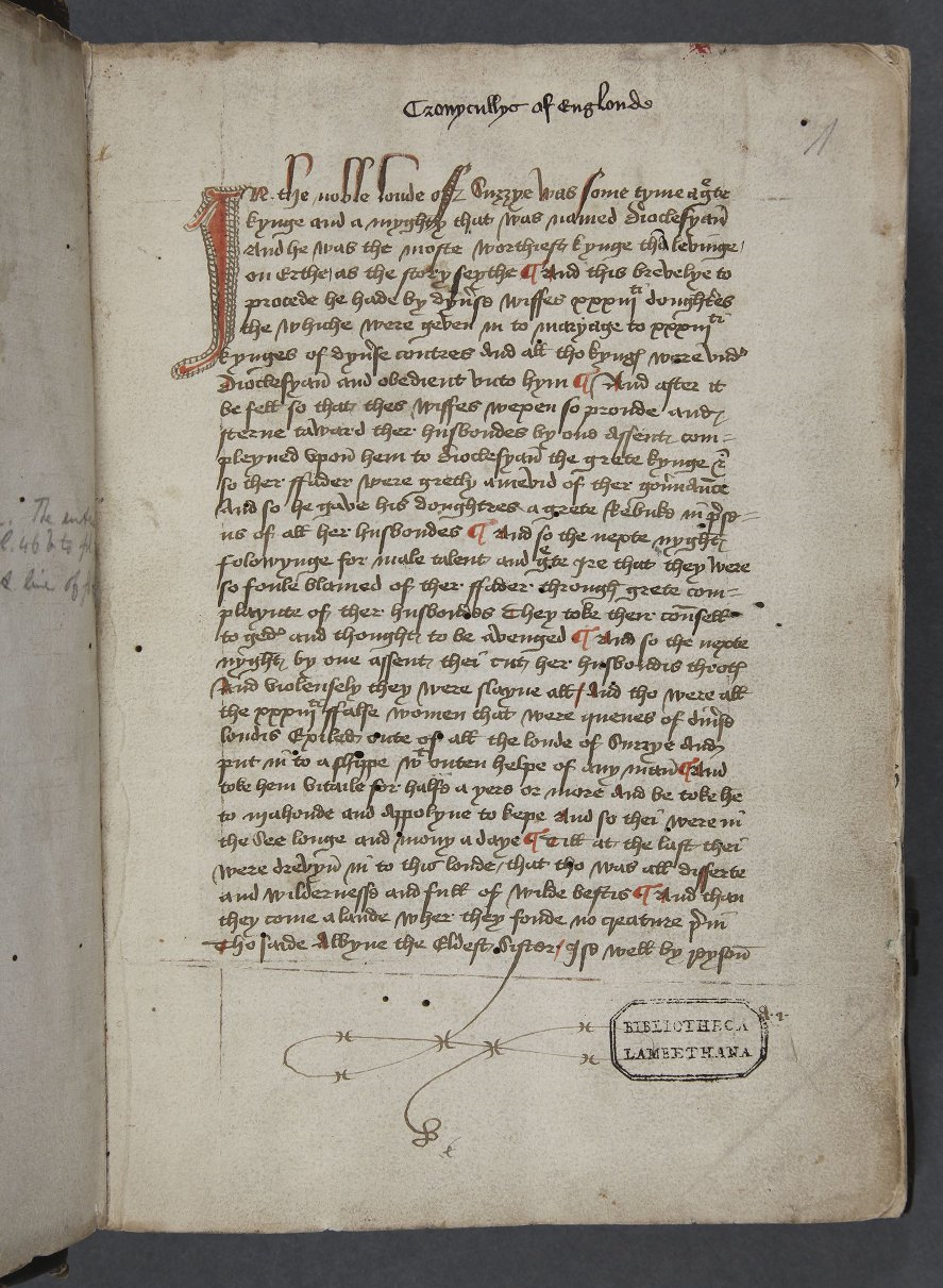 The first page of 'A Short Chronicle of England', Lambeth Palace Library MS306.